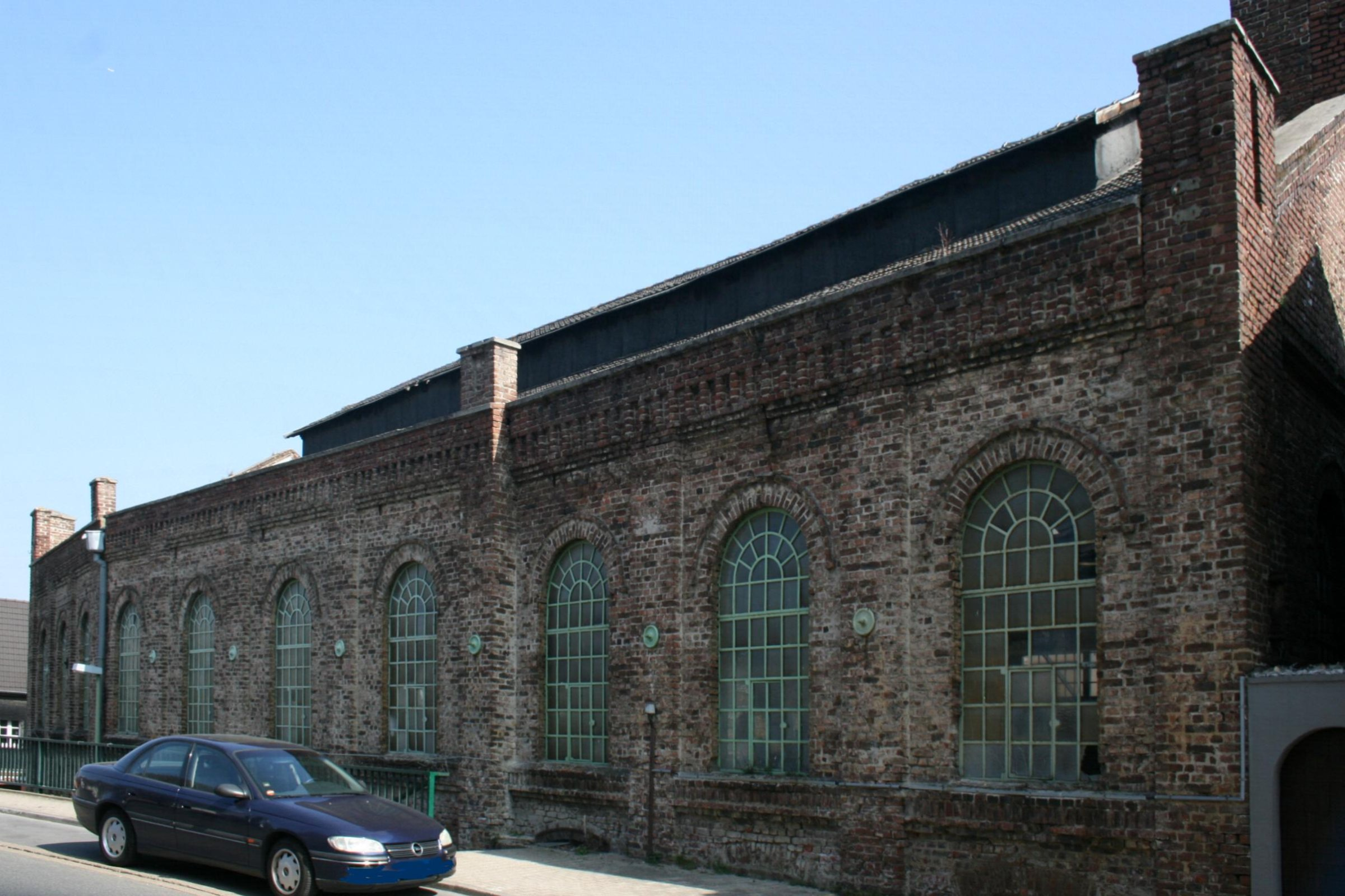 Cultural heritage monument No. 3/023 in Düren